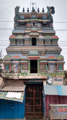 Varadarajaperumal temple east main street கீழவீதி வரதராஜப்பெருமாள் கோயில்